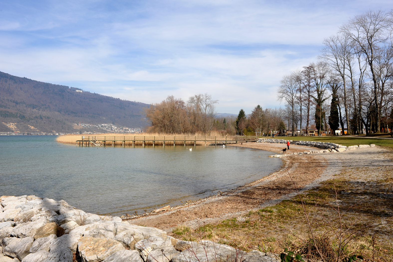 Beach near the camp ground in Sutz-Lattrigen; Berne, Switzerland.